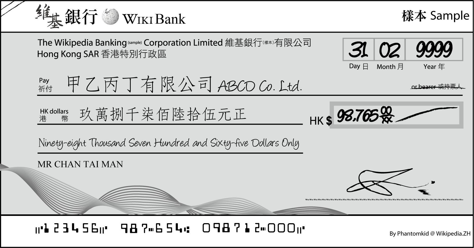 Hong Kong Cheque/Check Sample 中文（香港）: 港式支票樣本